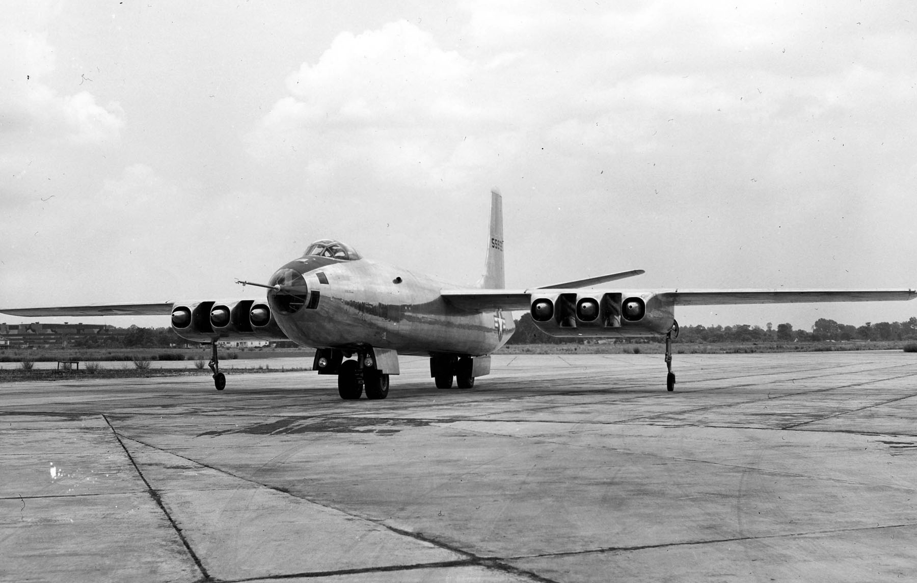 Martin XB-48 on the ground. Cooling tunnels are beetwen the engines.